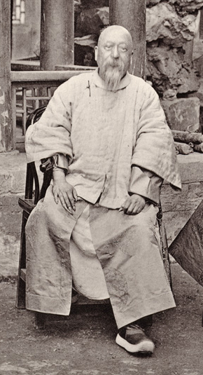 Tung-sean (middle), Chinese President of the Board of Finance, is a celebrated scholar, and the author of numerous works, notably one of an historical and topographical character…